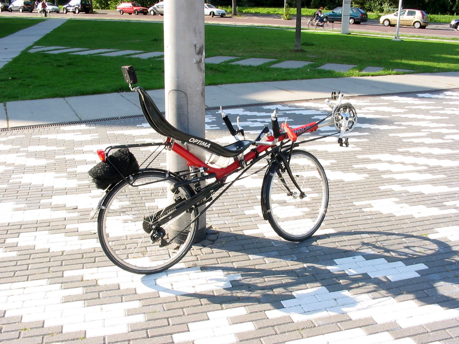 Recumbent bicycle